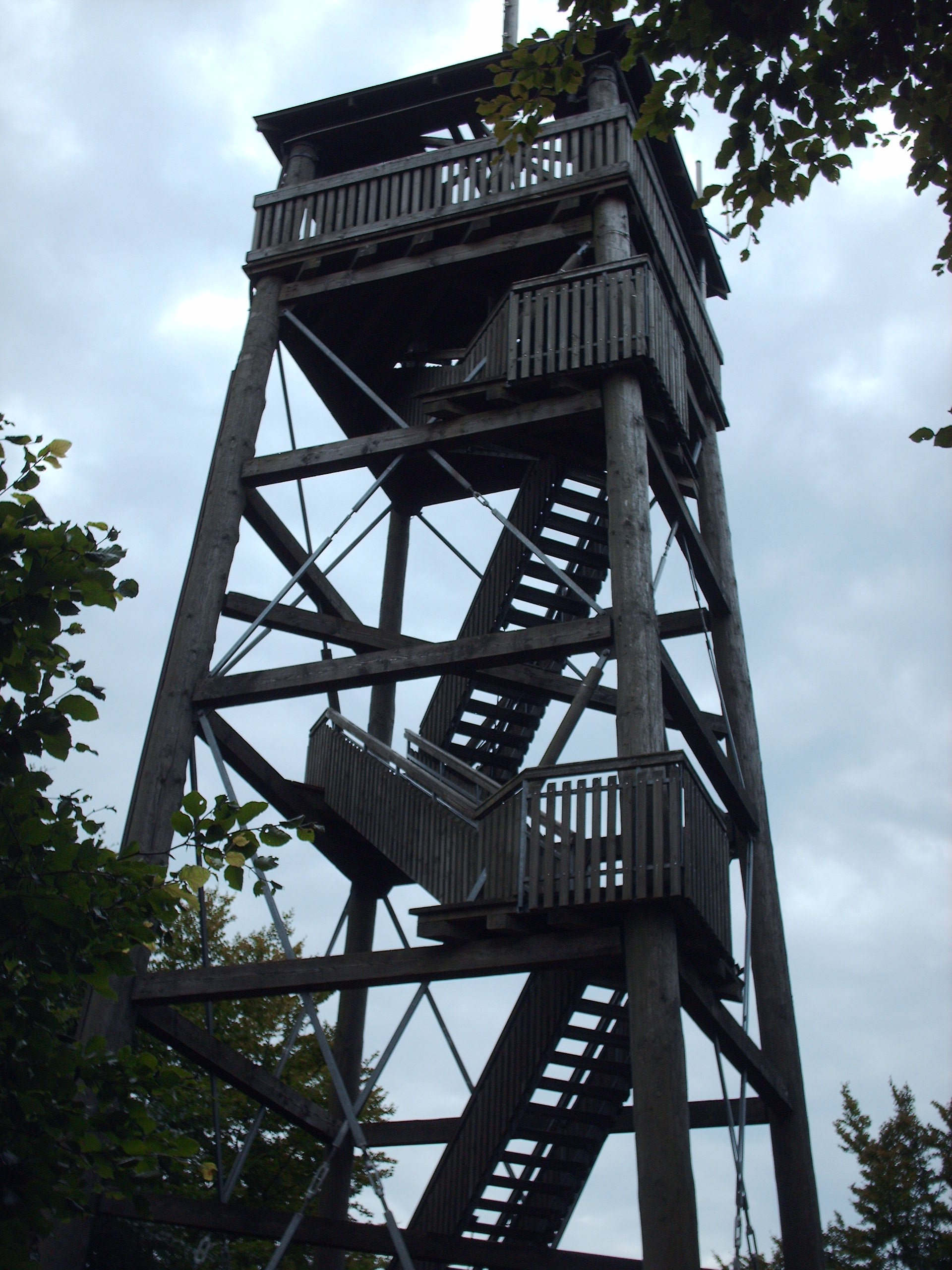 Luisenturm, Borgholzhausen, Germany check usage